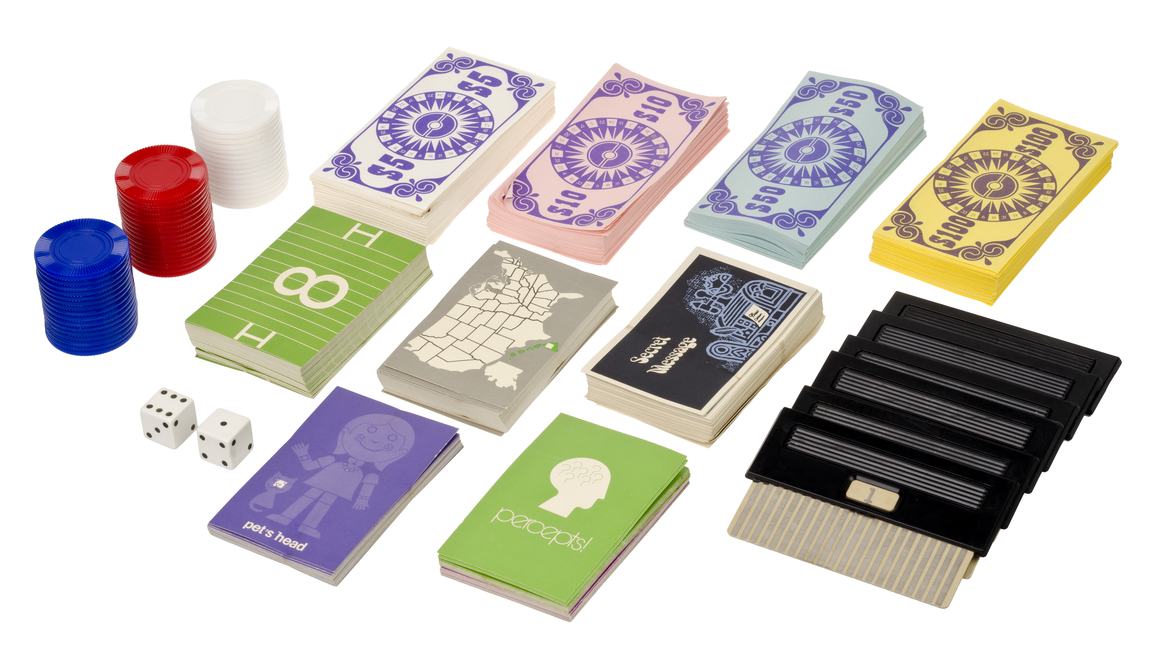 Accessories that were included with the Magnavox Odyssey gaming console. Released in 1972, the Magnavox Odyssey was a very simple and limited machine that was only capable of producing simple shapes on the screen. Magnavox included various games in the box that could be played with this simple setup, which included: Playing chips Colored screen overlays Game boards Various types of play cards Dice Play money 6 jumper cards